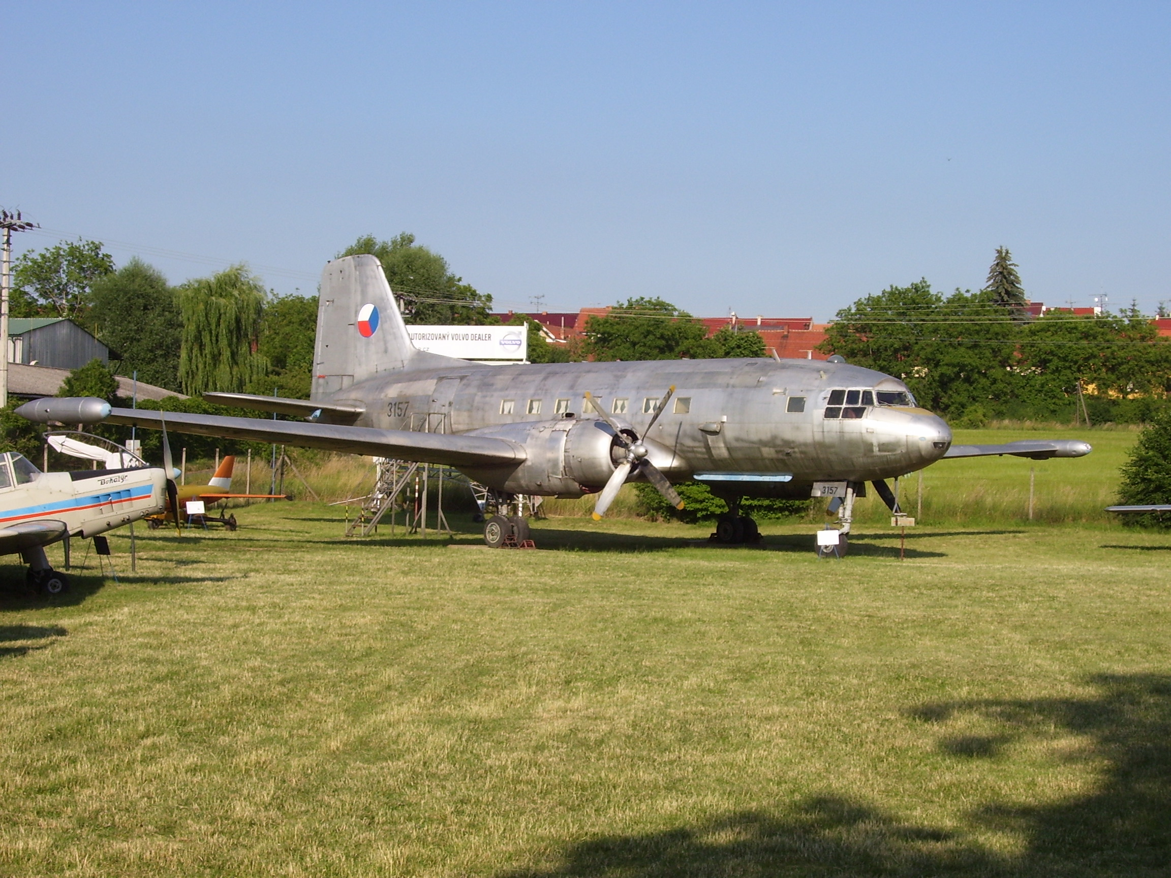 Avia 14 Museum Kunovice CZ